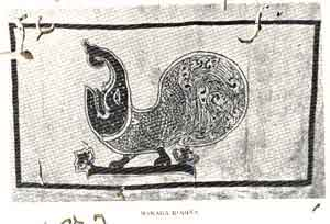 A 19th-century representation of the Karava Makara Flag.